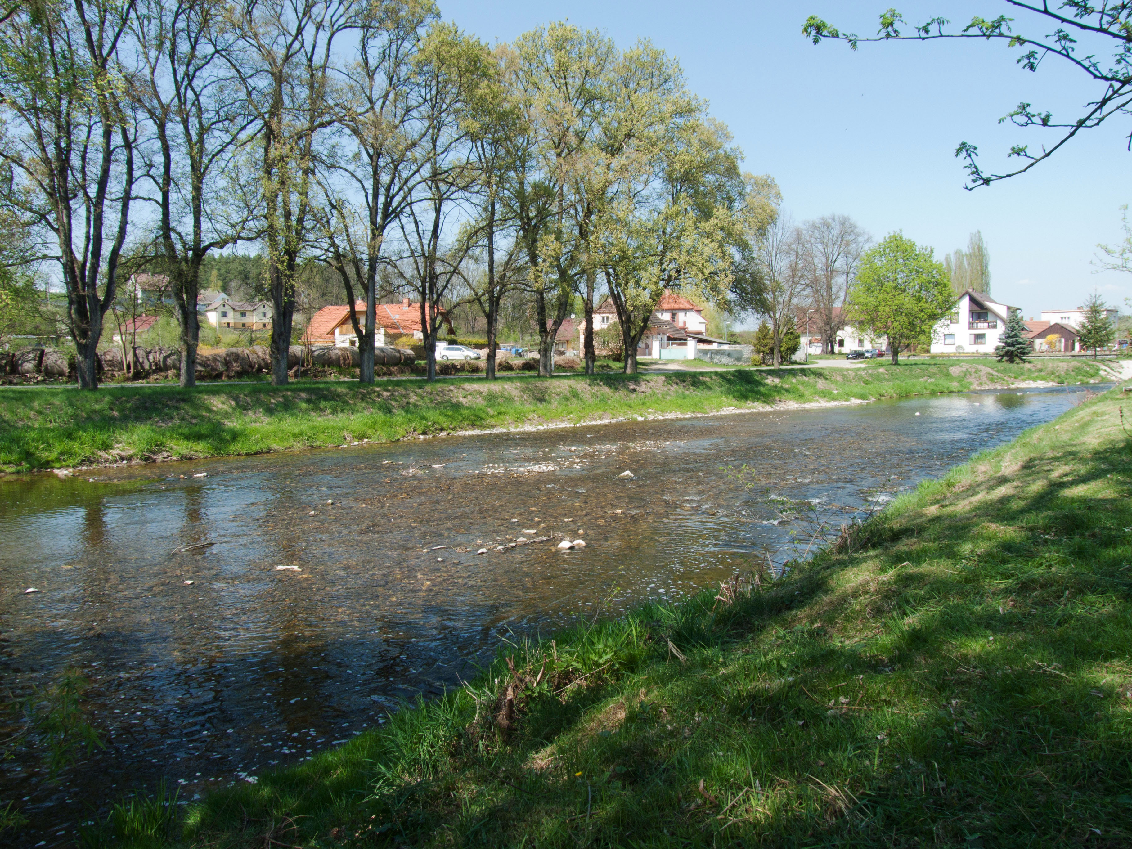 Volyňka river in the village of Přední Zborovice, Strakonice District, Czech Republic. Česky: Řeka Volyňka v obci Přední Zborovice v okrese Strakonice.